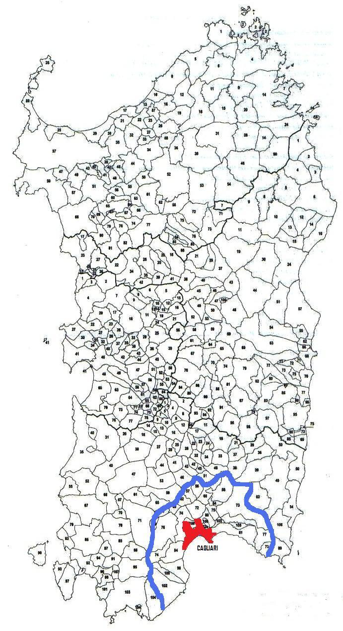 Cagliari Metropolitan area map